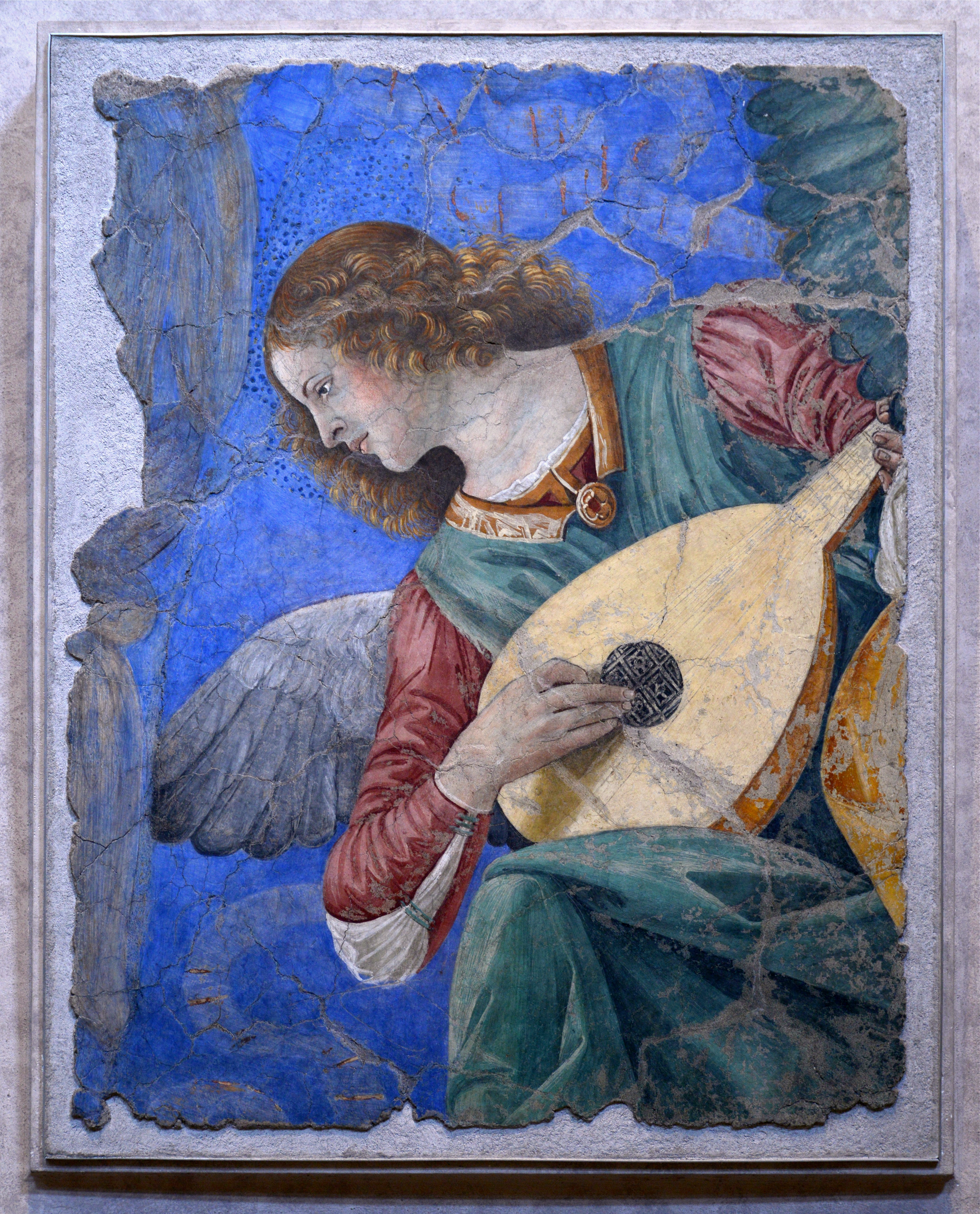 Angel by Melloso da Forli. Vatican Pinacoteca